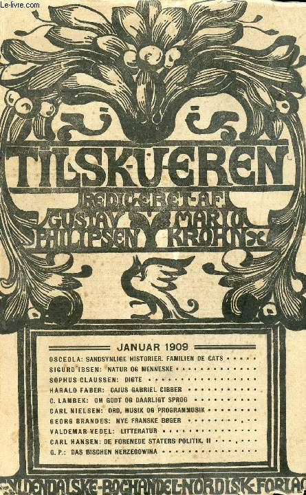 Cover of the January 1909 edition of the Danish literary journal Tilskueren